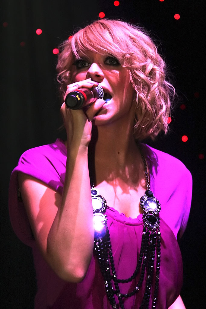 Liz McClarnon from the British girlband Atomic Kitten